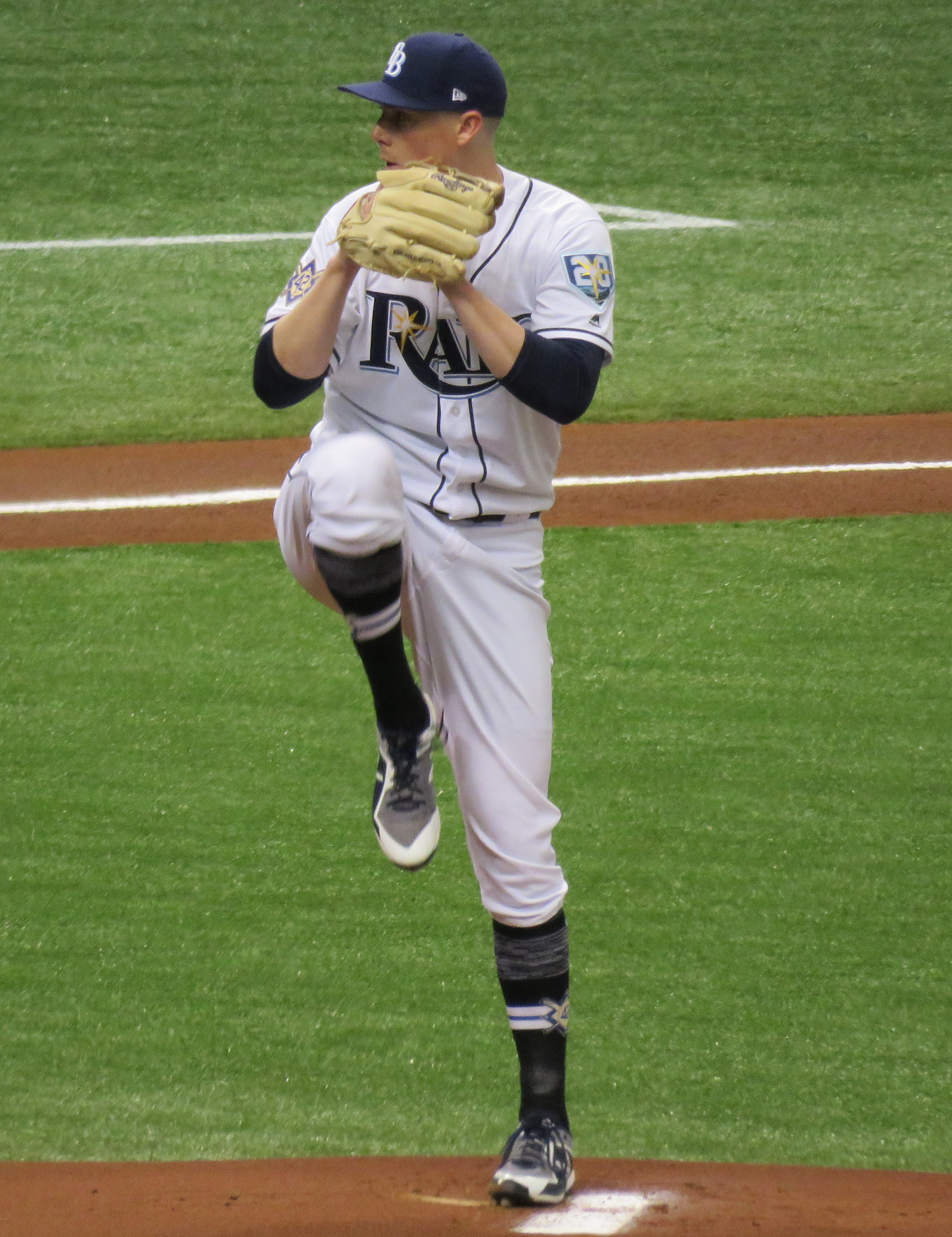 Ryan Yarbrough pitching for the Tampa Bay Rays in 2018